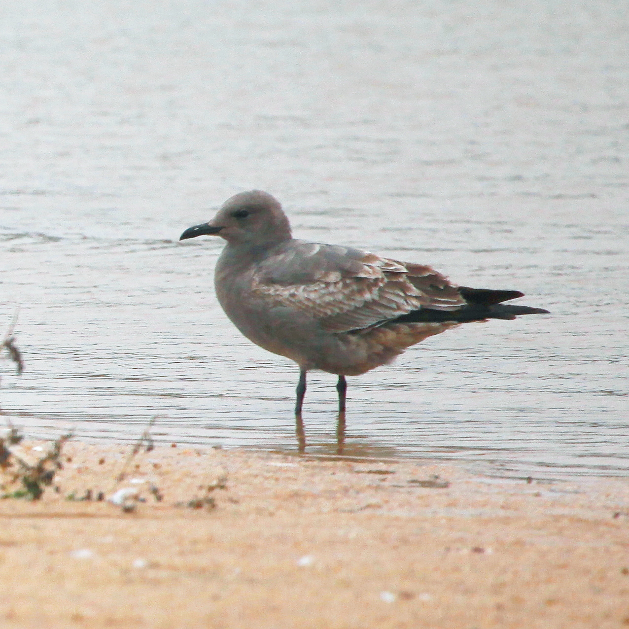 Grey Gull (Young) en Algarrobo beach, Chile